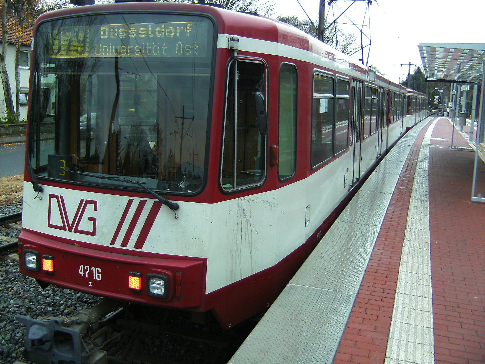 DUEWAG underground train B80C, former bistro vehicle